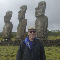 Headshot Gary Arndt